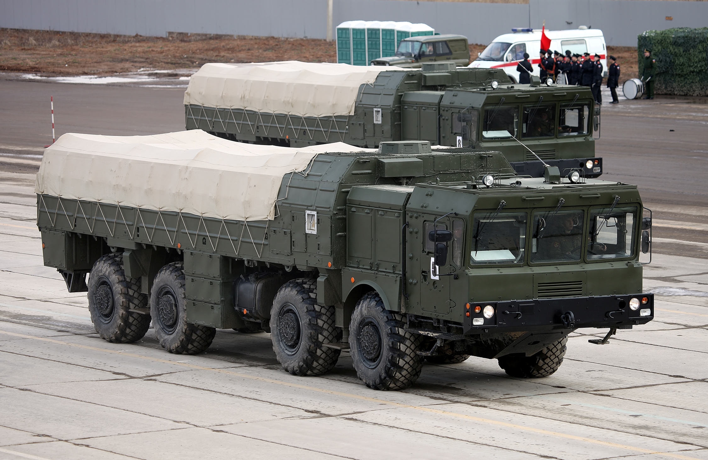 9T250 loading vehicle for Iskander-M system